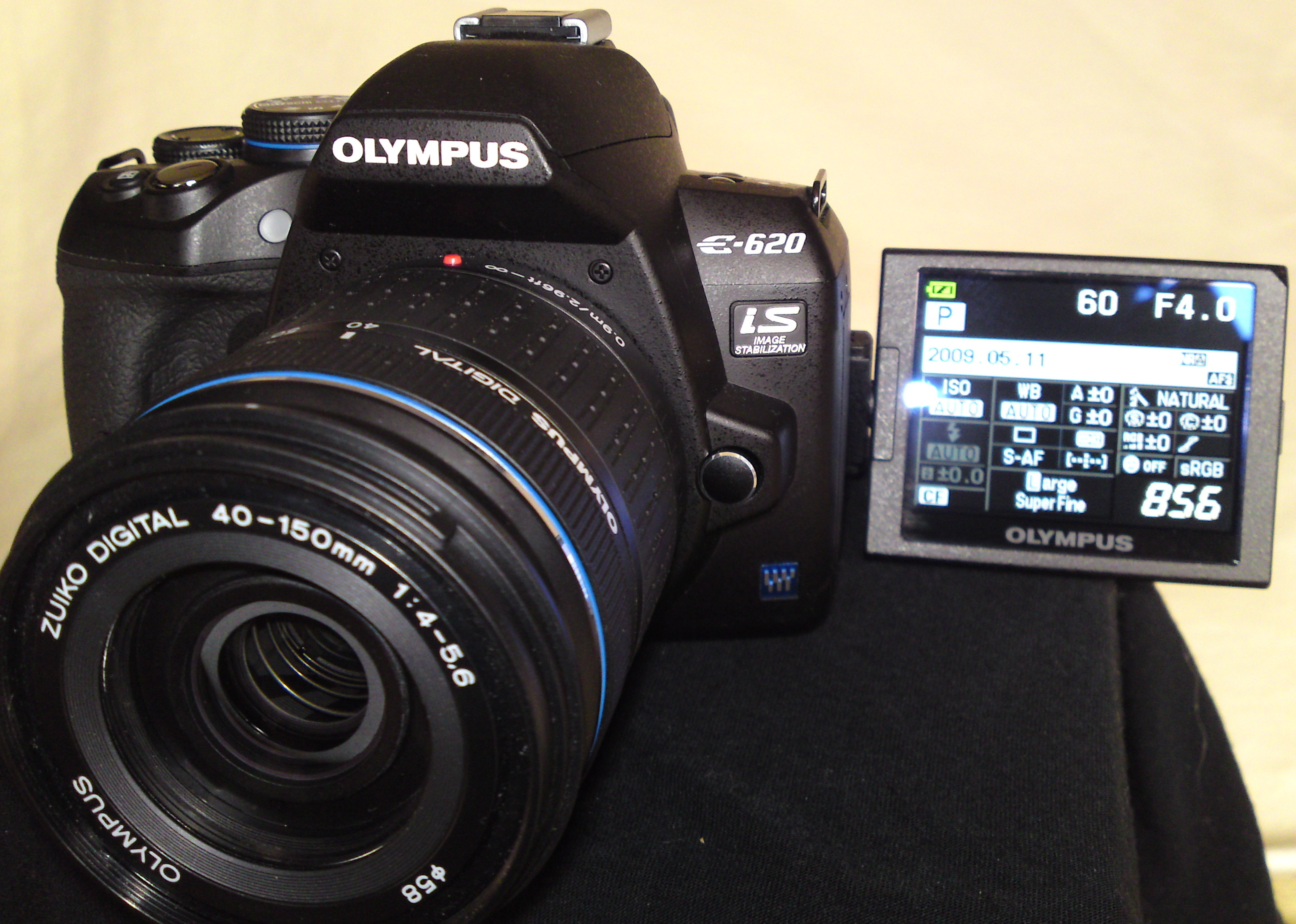 Front view Olympus E-620